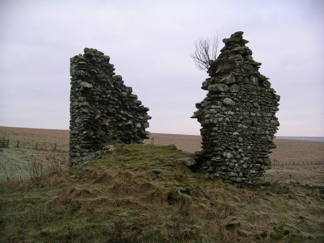 Gamelshiel Castle (remains of) The remains of a simple keep from the 14th century.